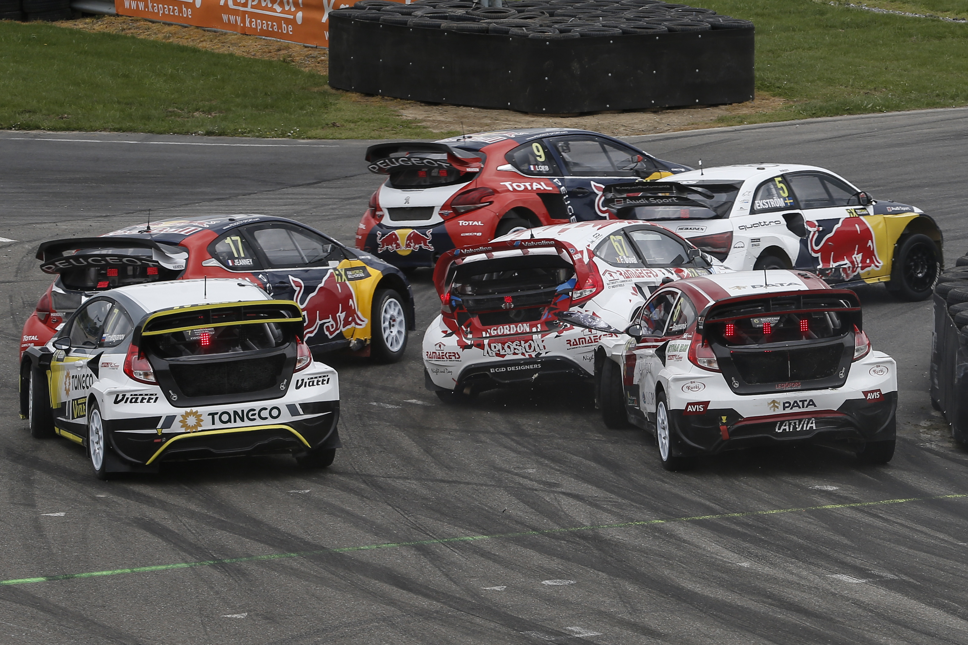 2016 FIA World Rallycross Championship / Round 03, Mettet, Belgium / May 14 - 15 2016 // Worldwide Copyright: Tony Welam/EKS/McKlein